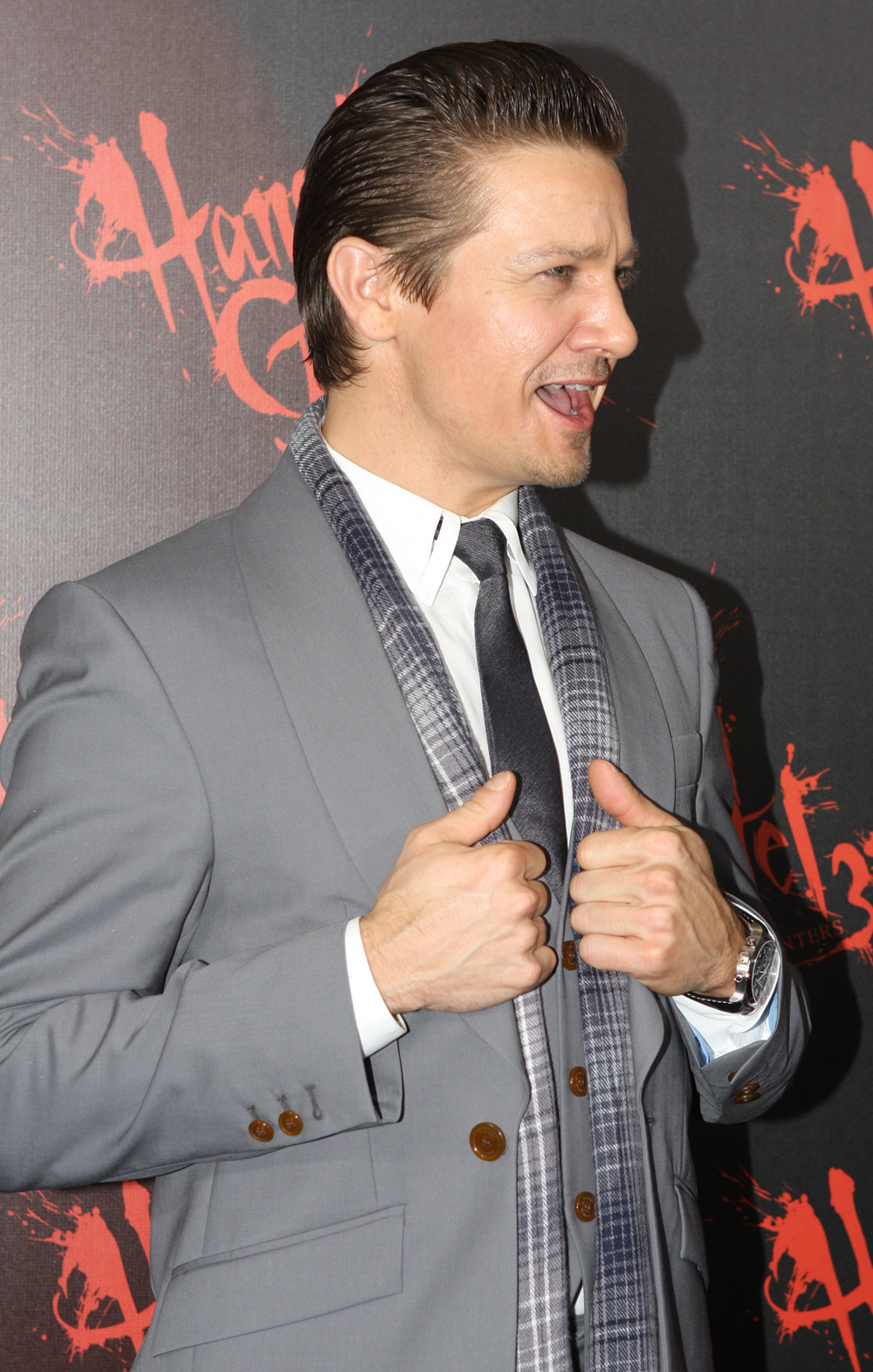 Jeremy Renner at the Hansel & Gretel: Witch Hunters 3D movie premiere; Sydney, Australia.